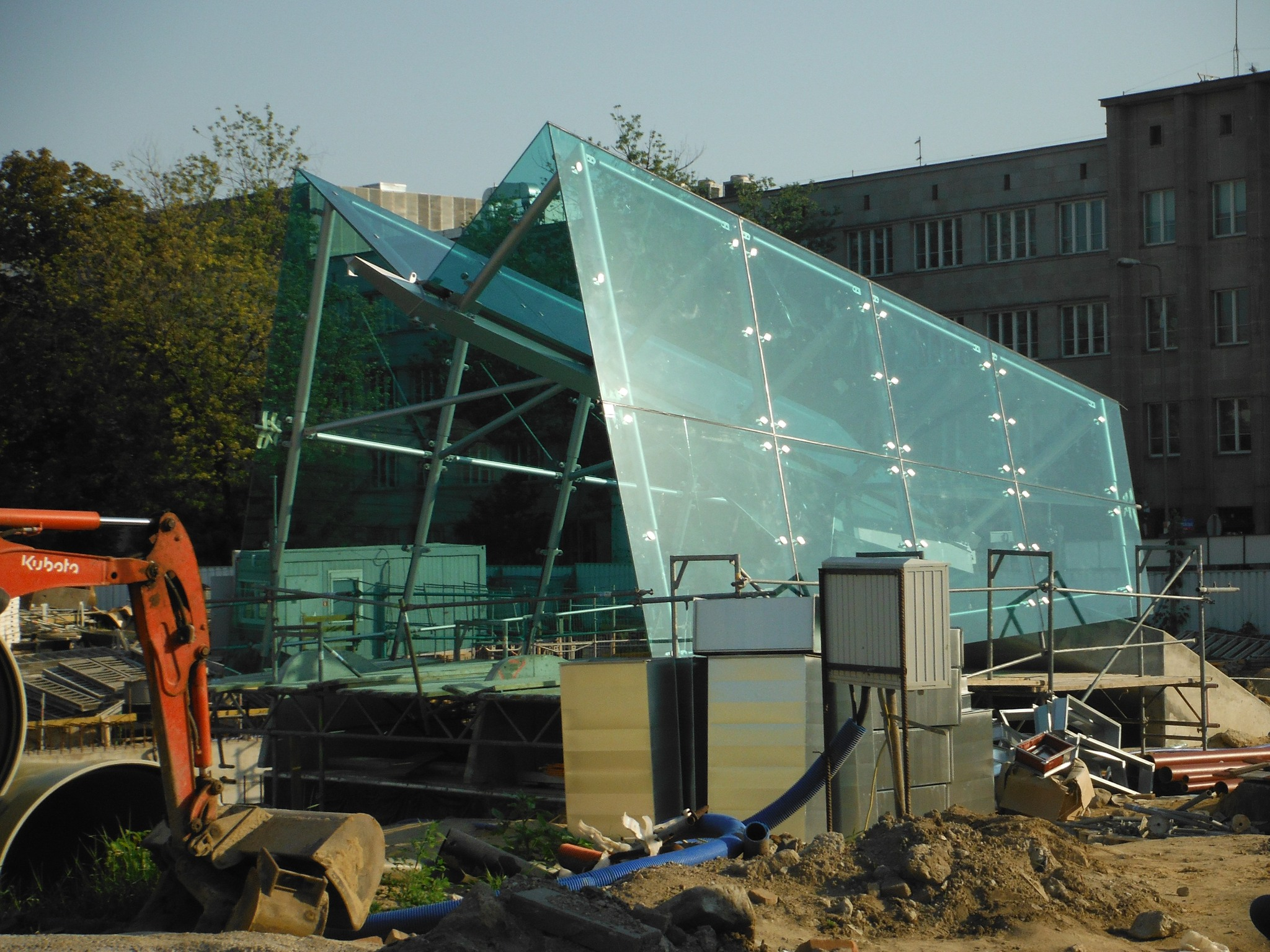 Centrum Nauki Kopernik metro station (under construction) in Warsaw (2nd of August 2014).